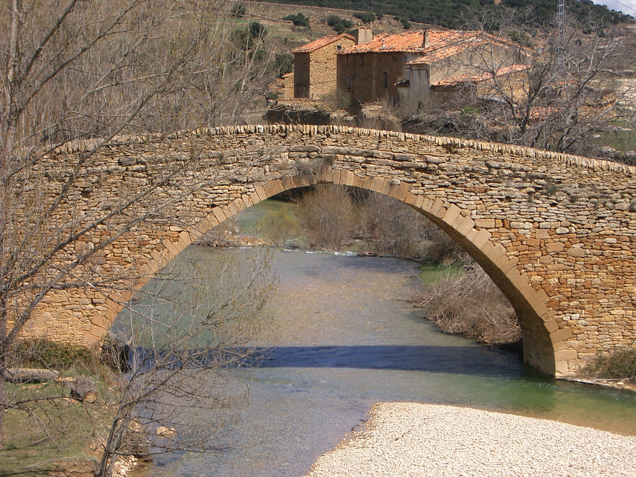 Gothic bridge over "Riu de les Truites", in Vilafranca, Spain.